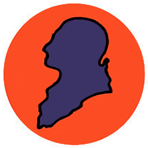 11th Division (United States) Shoulder Sleeve Insignia